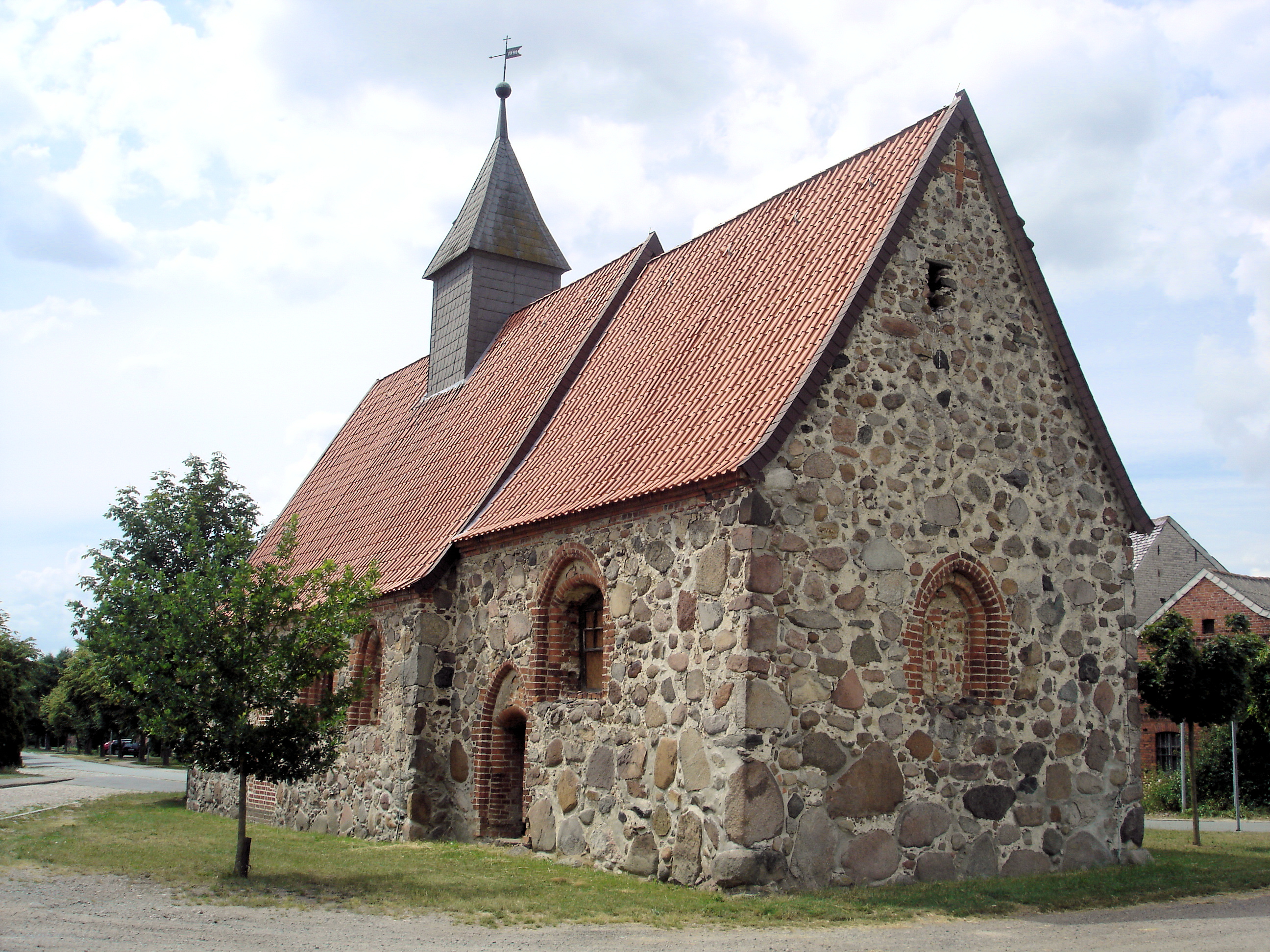 Hermitage-church in Stappenbeck, Saxony-Anhalt, Germany